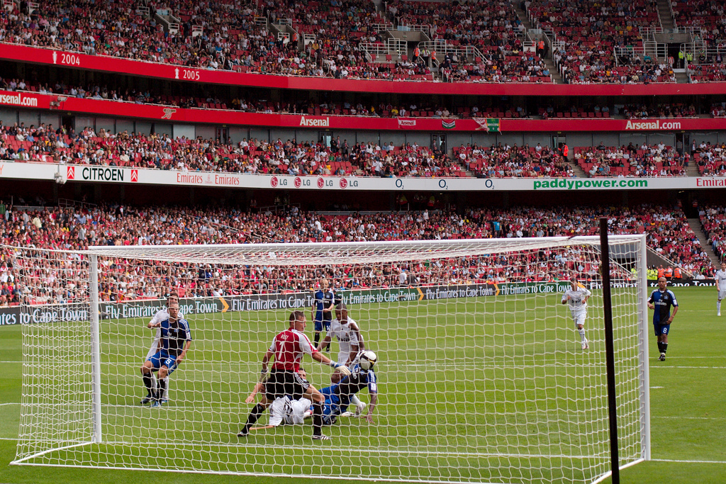 2008 Emirates Cup